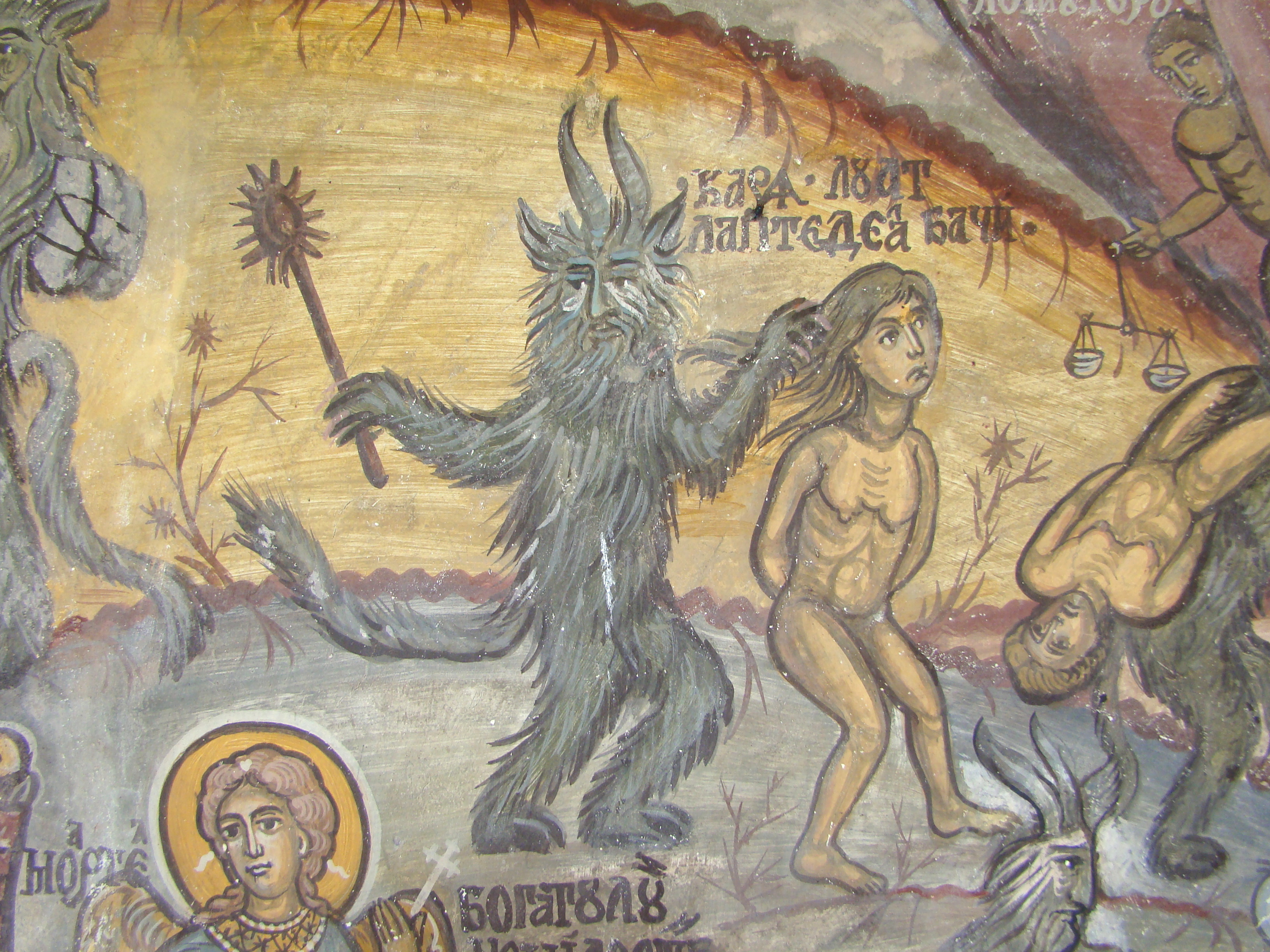 Church of Saint John the Baptist in Olănești, Vâlcea county, Romania